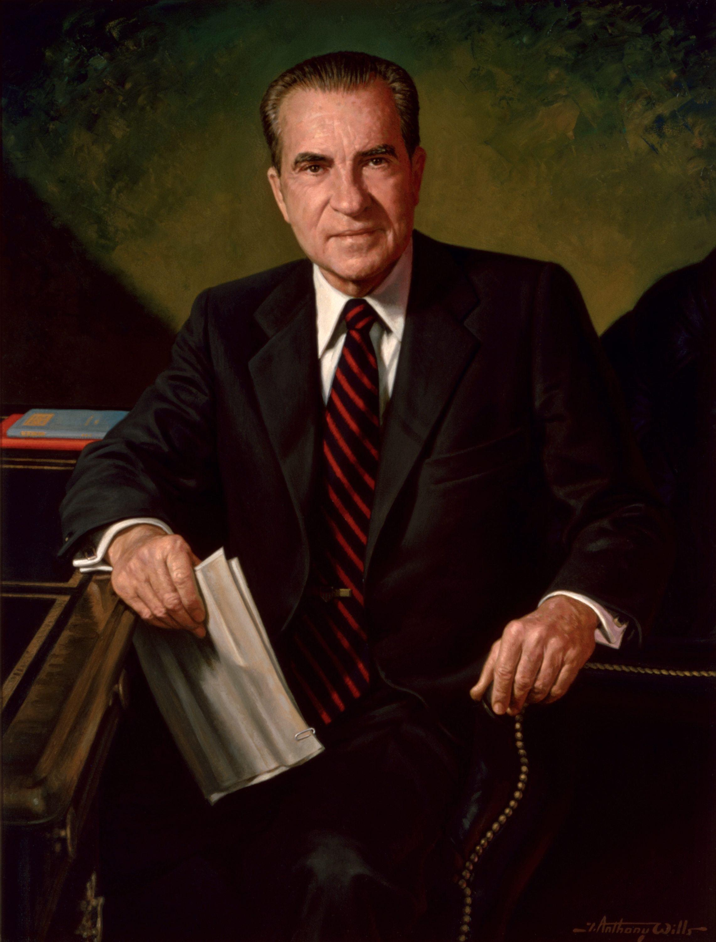 During the Nixon administration, the State Floor rooms were redesigned in a historic museum-like manner. This was done to allow the American public to view the large quantity of antiques in the White House.